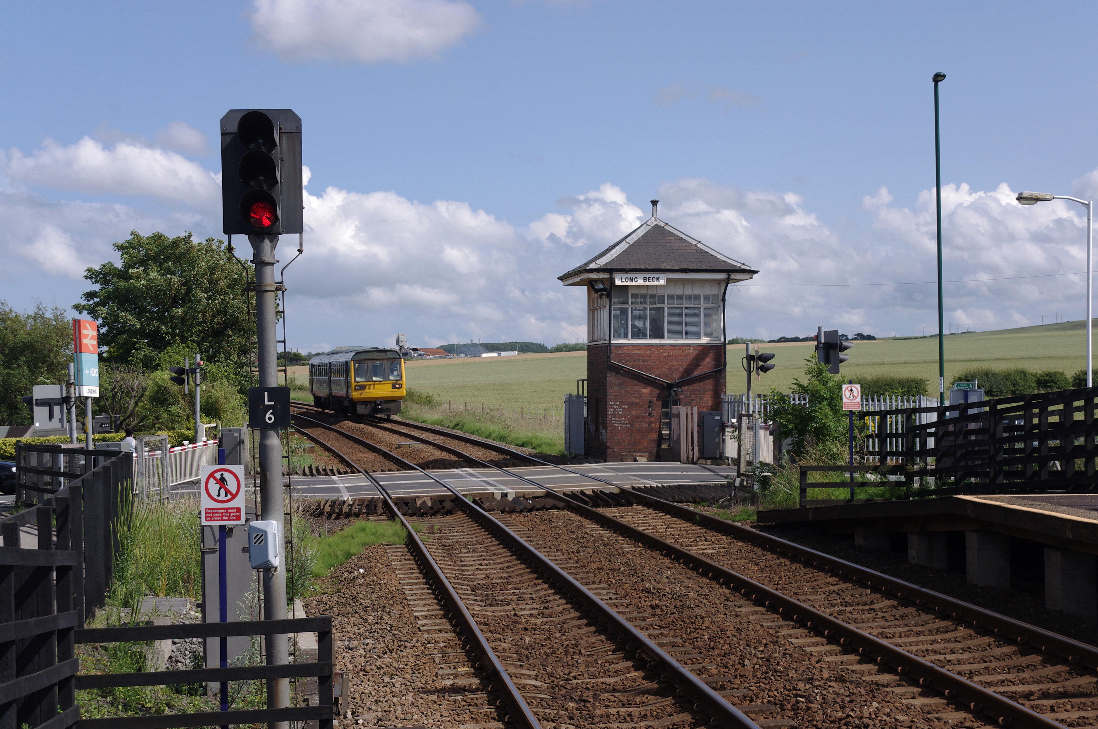 Northern Rail Pacer DMU 142021 approaches Longbeck railway station with a service to Darlington.